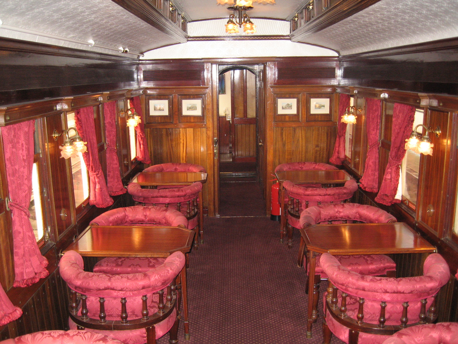 The Queen of Scots private train is available for charter throughout Great Britain from Train Chartering.